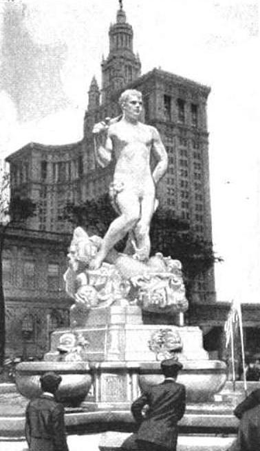 Photograph of Frederick William MacMonnies statue "Civic Virtue" outside Manhattan's City Hall circa 1922, Piccirilli Brothers sculptors, Itallian-American Bicylist, Edward Raffo model